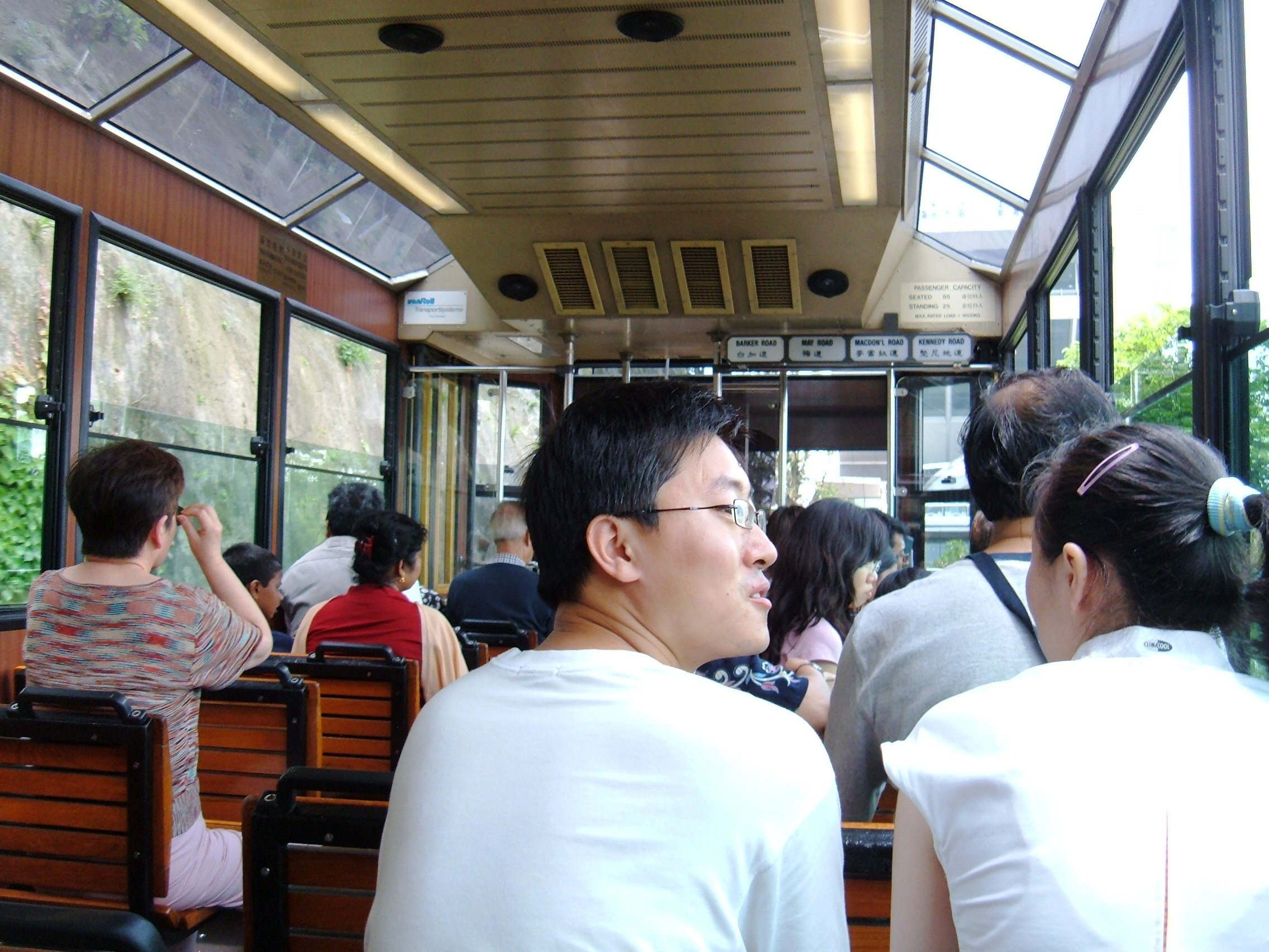 The interior of a Peak Tram.